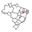 Location of the National park of Serra da Capivara.